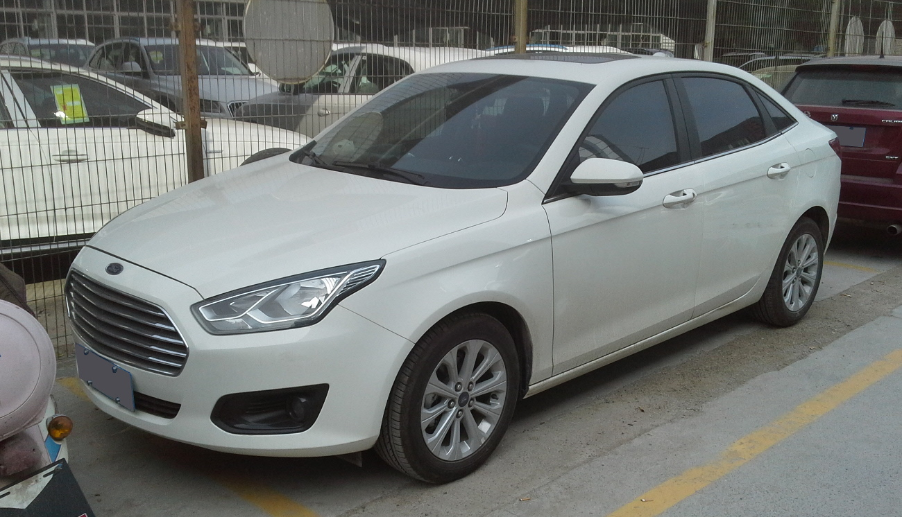 Ford Escort CN photographed in Zhengzhou, Henan province, China.